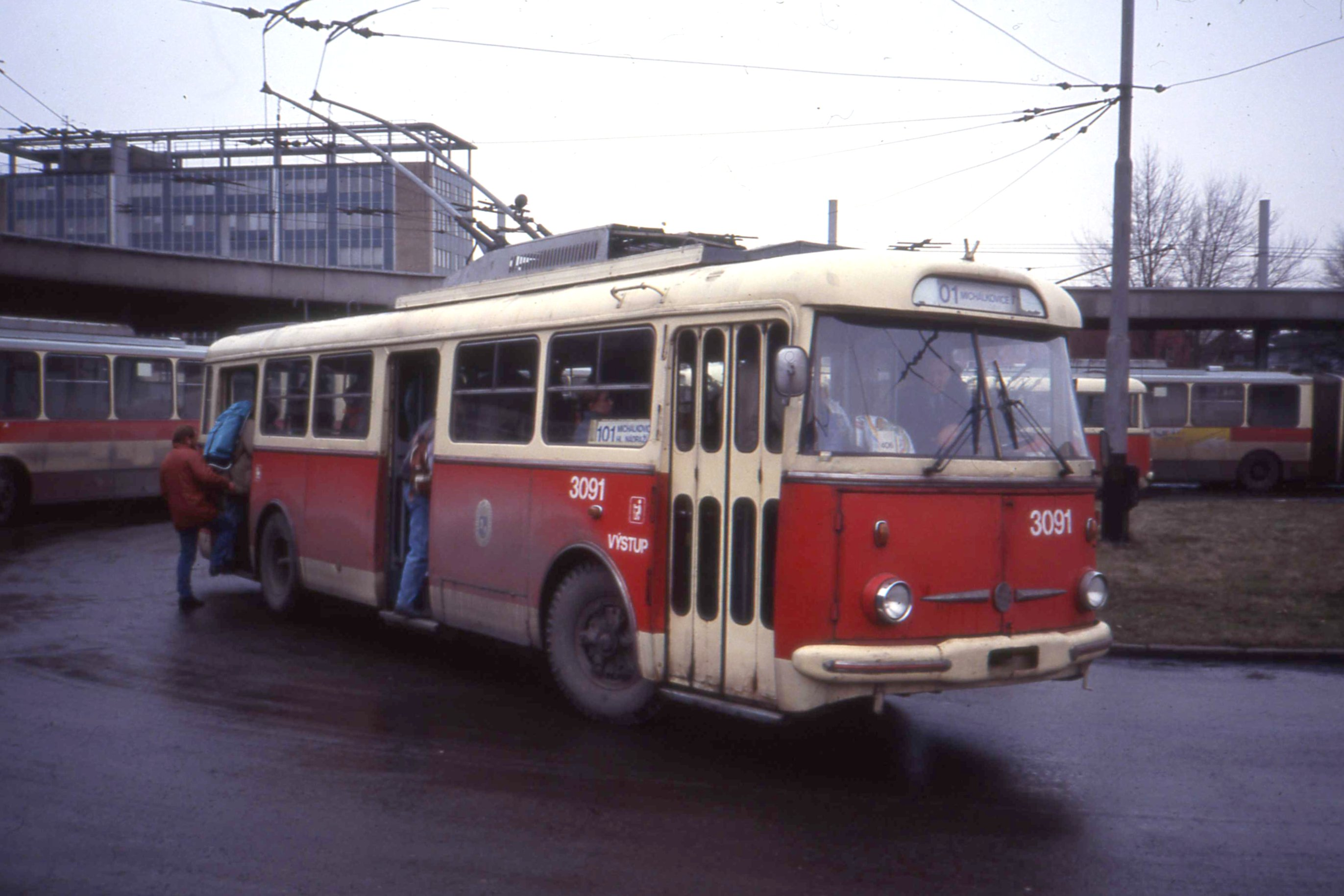 Škoda 9Tr trolleybus in Ostrava, former Czechoslovakia